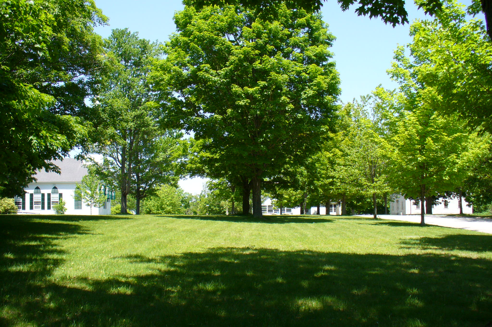 Another view of the New Salem common The New Salem Town Common (village green) in the center of the New Salem Historic District, Massachusetts. Photo date: May 2007. This photograph was taken and provided by Mr. Henry Cramer. Mr. Cramer has given permission for this image to be shared and used under the terms of the “Creative Commons Attribution-ShareAlike” license, the Creative Commons license. ColWilliam 23:53, 10 August 2007 (UTC)